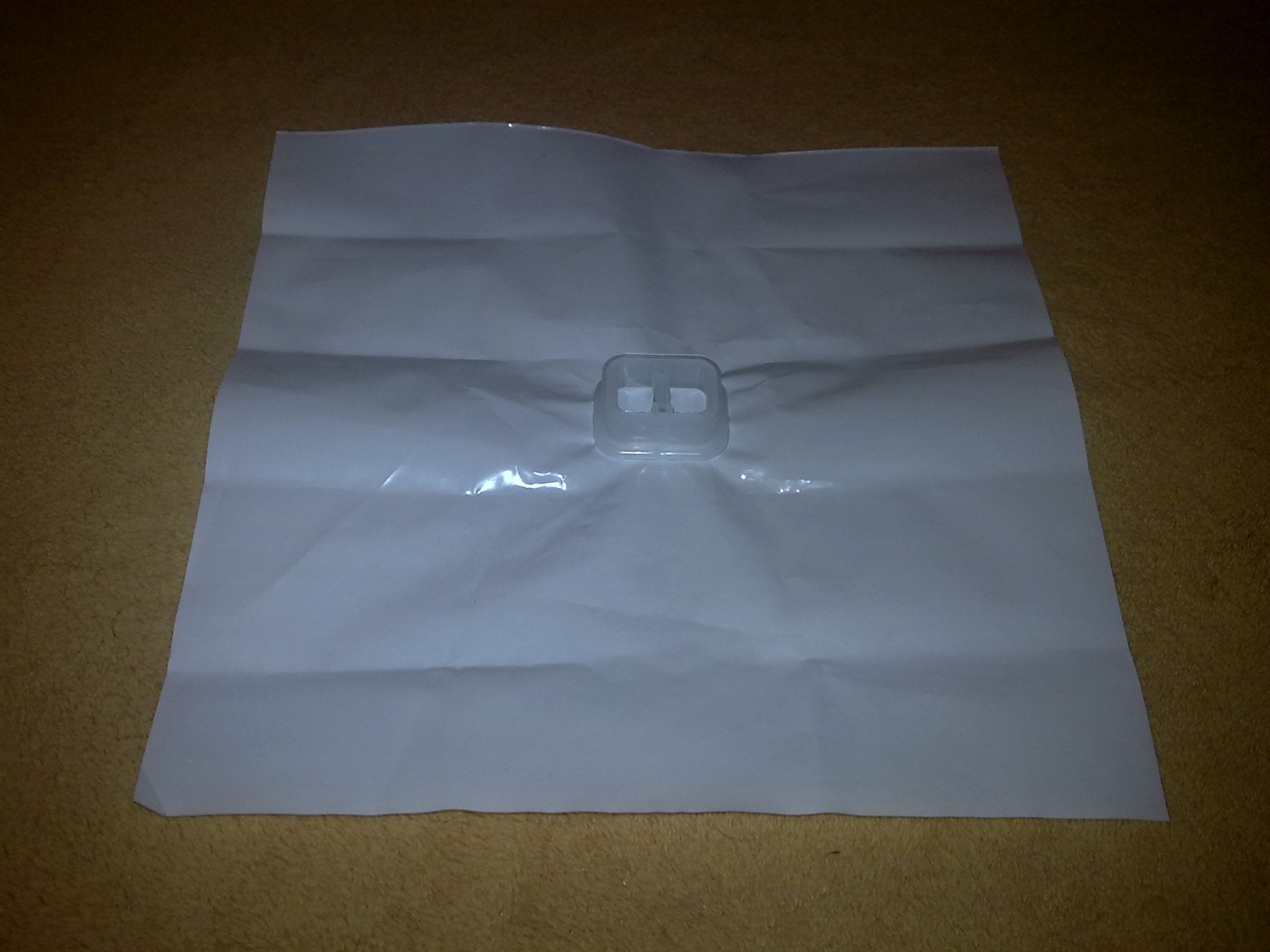 Resuscitation - drape